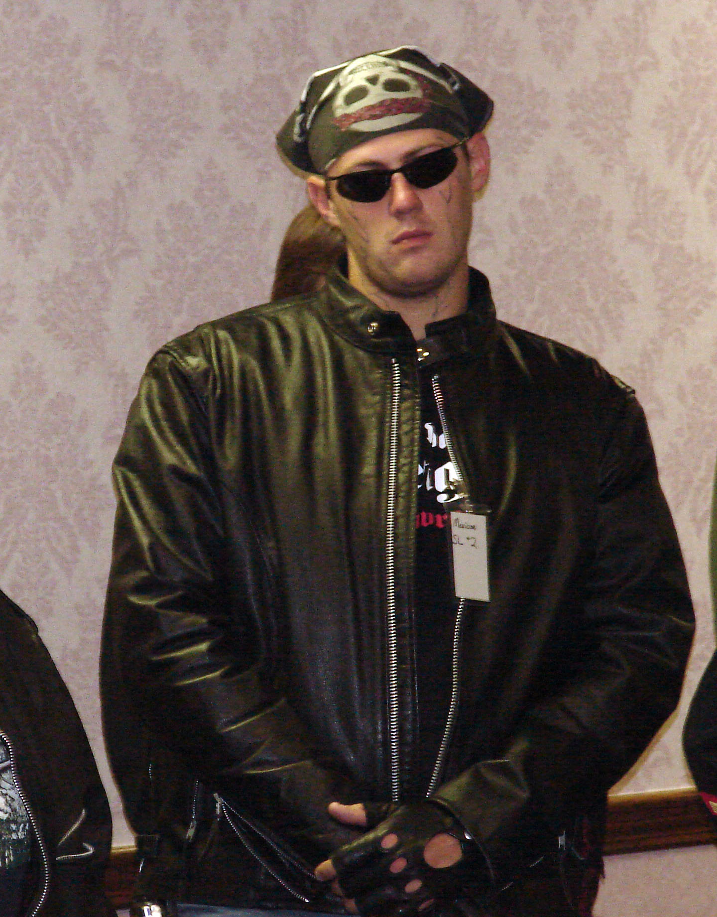 Mind's Eye Theatre : the character Patrick from Cincinati, Camarilla's conclave, Milwaukee 2006.